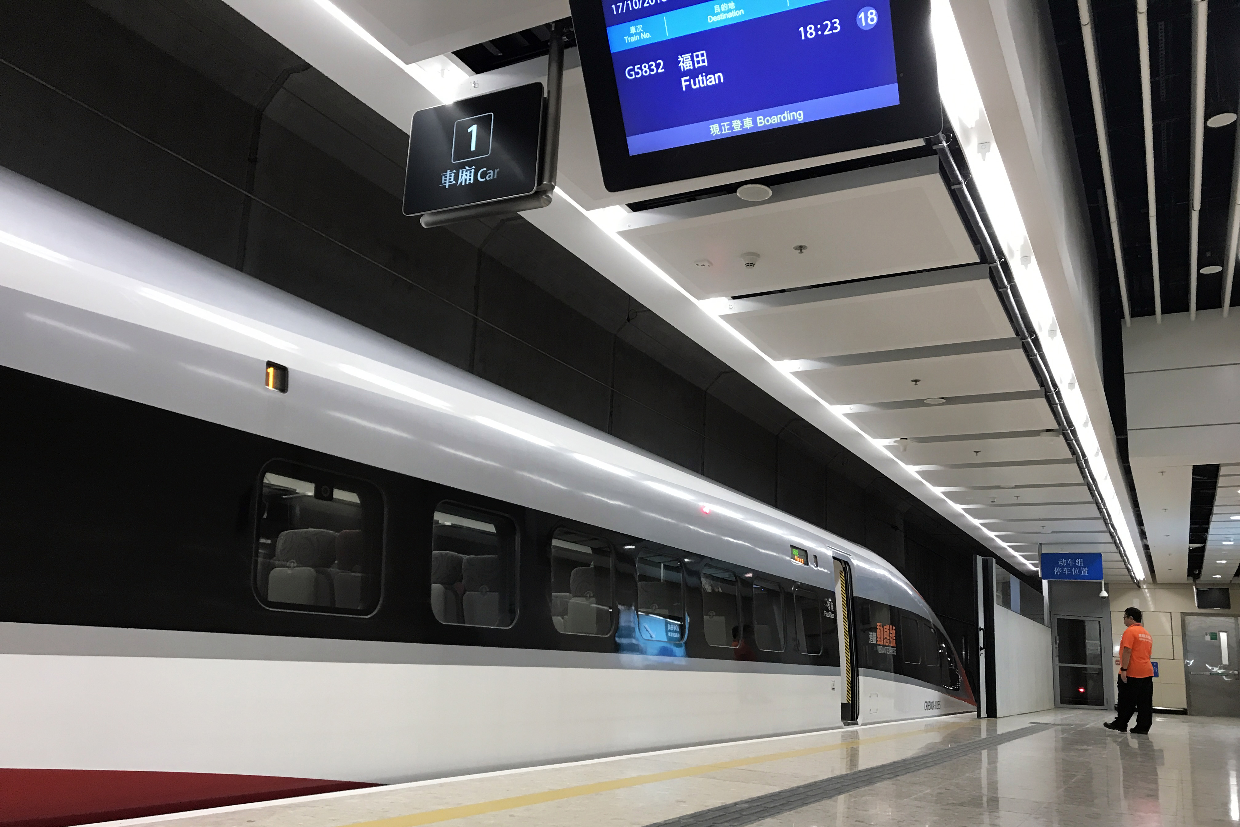 G5832 to Futian